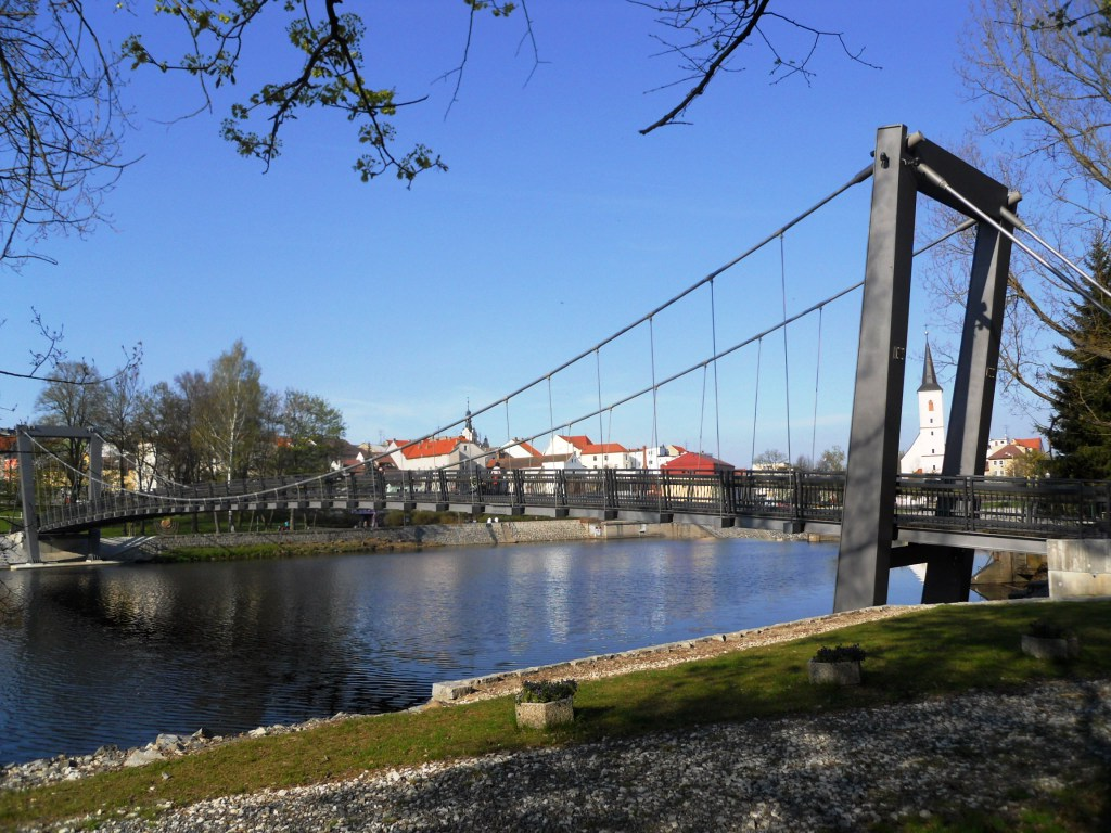 Strakonice pedestrian bridge (2009)